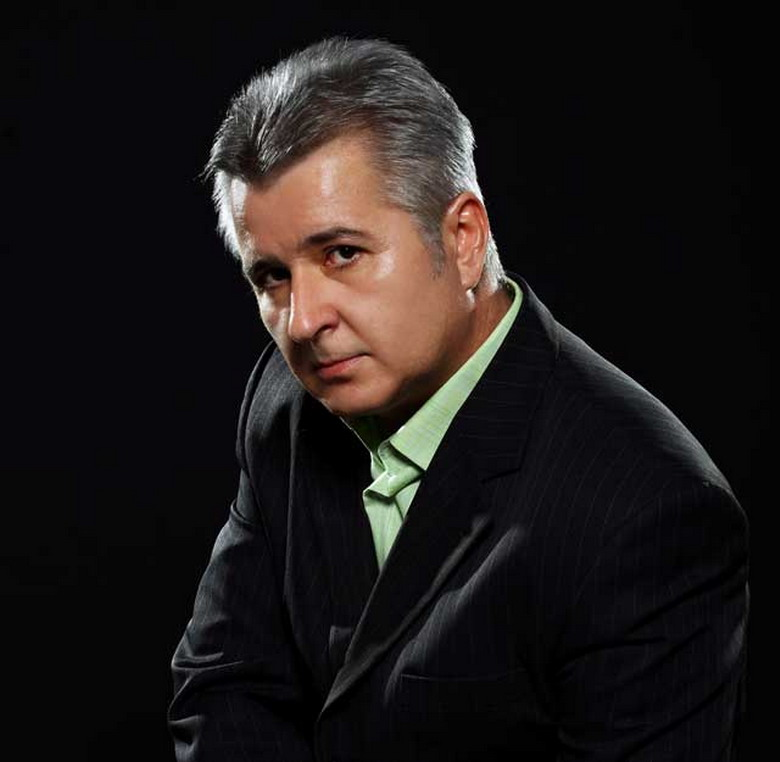 Image of the Slobodan SavicЈое 16:29, 11 May 2009 (UTC)